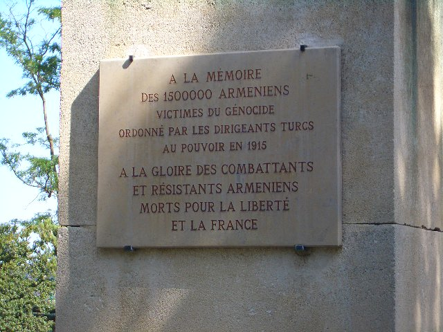 Monument to Jean Althen (Hovannes Althounian, 1709-1774} in Avignon